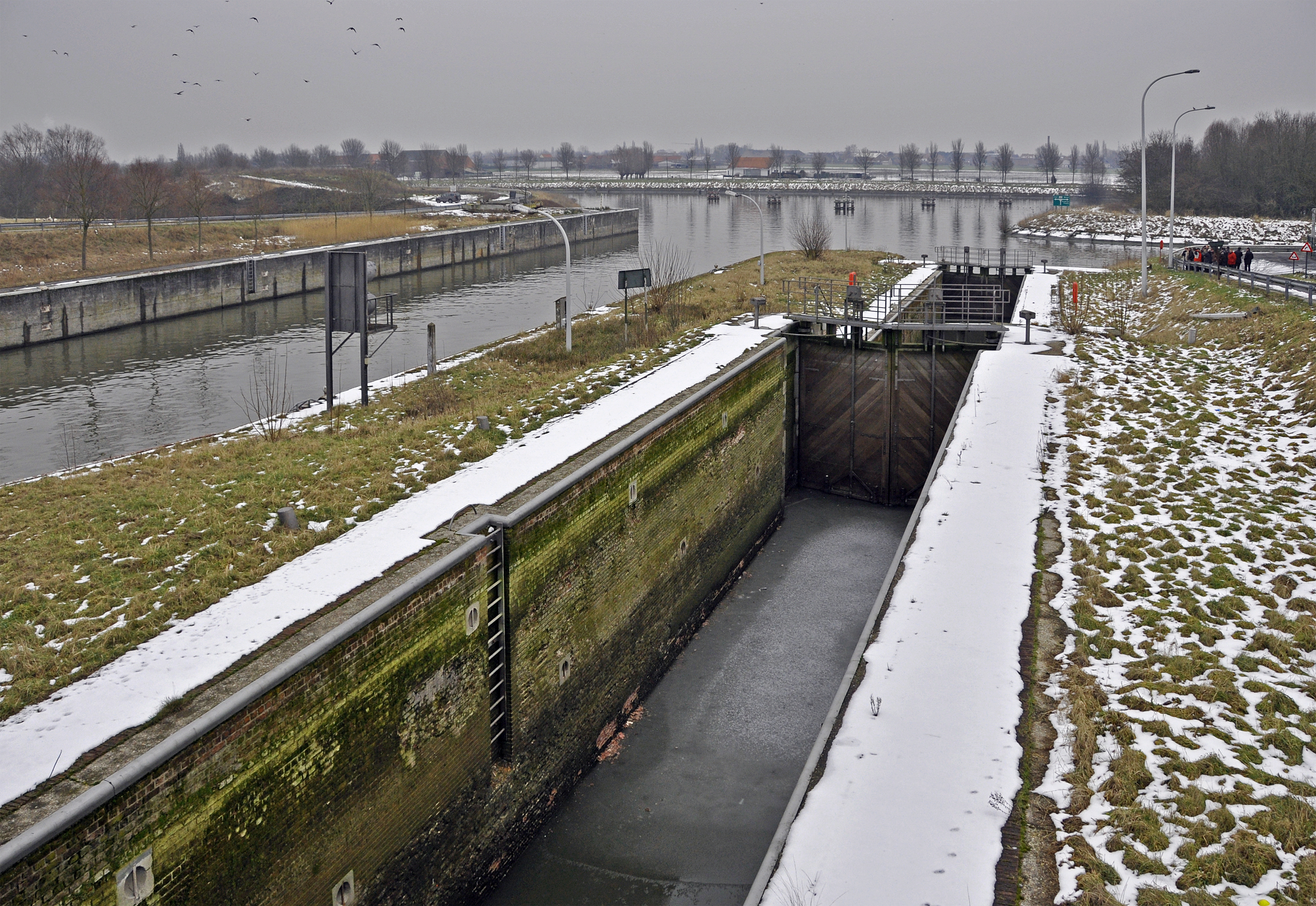 Ooigem (Wielsbeke, Belgium): old lock, 1872